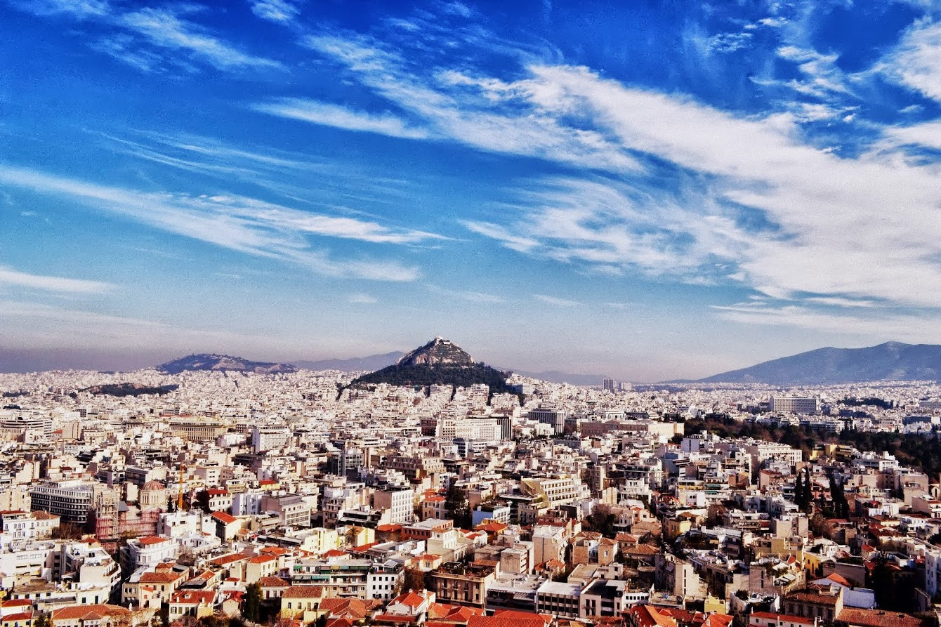 500px provided description: Athens [#athens]